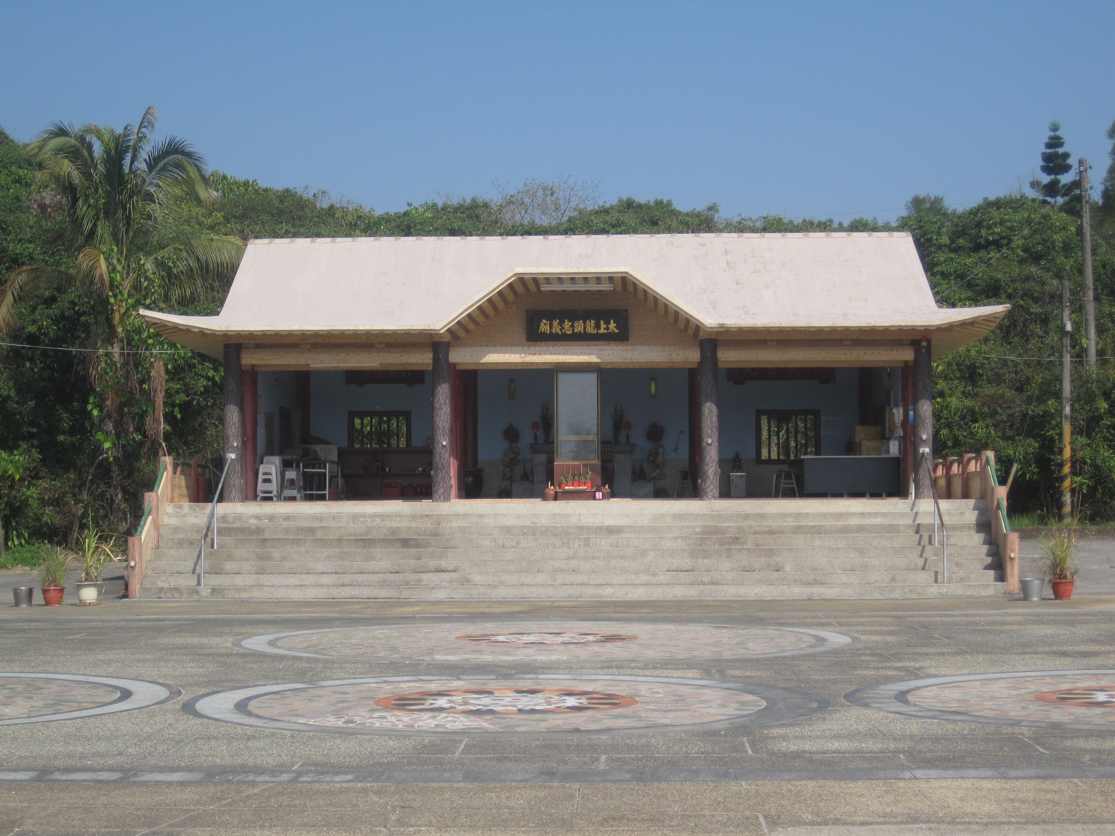 Toushe Public Shrine